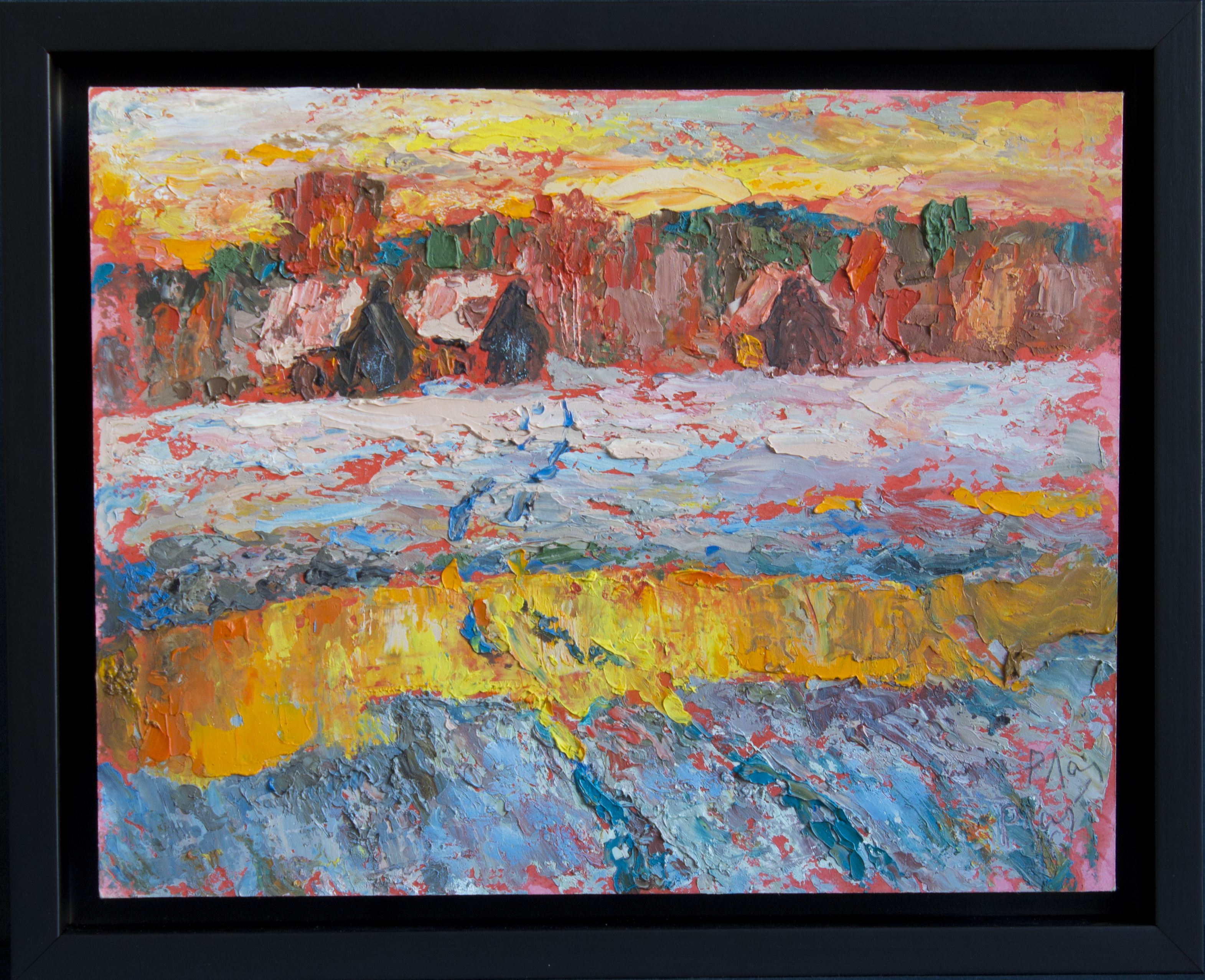 On a painting depicted frosty winter morning